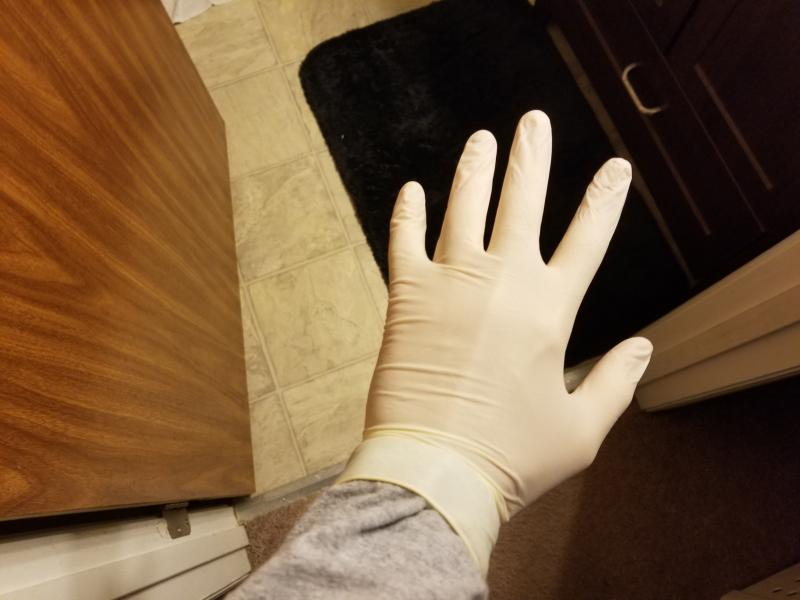 latex glove on adult hand